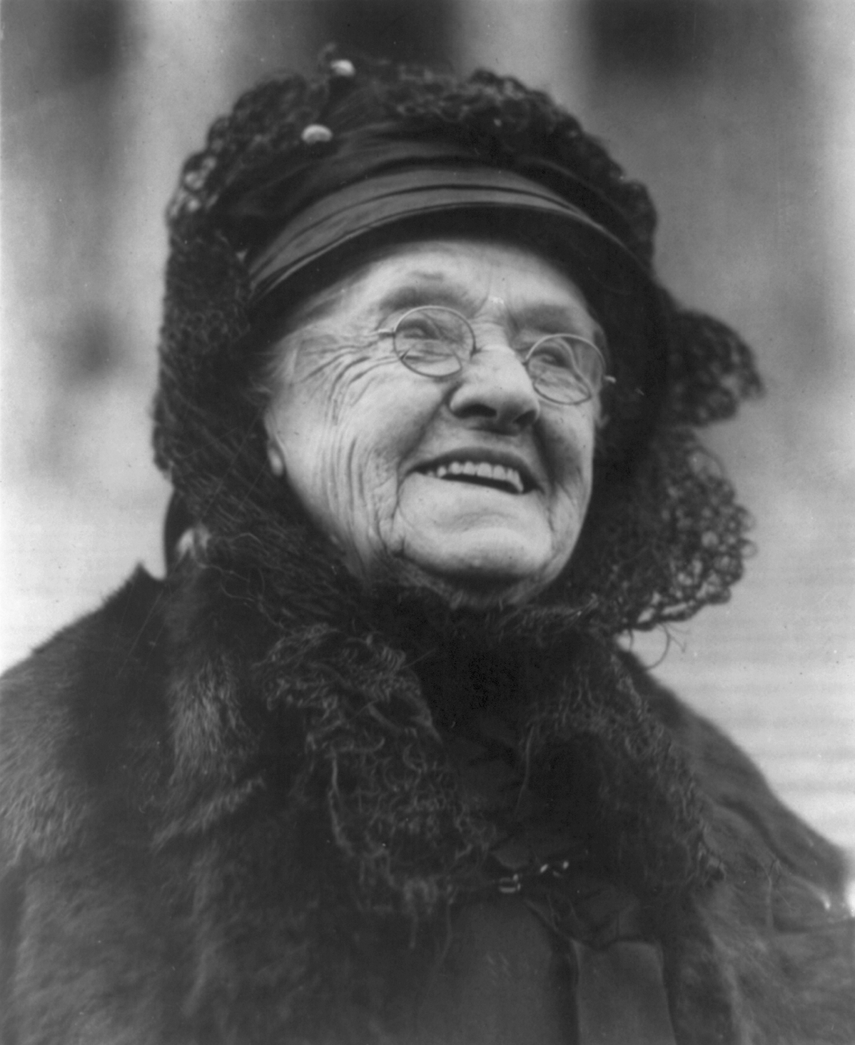 Rebecca Ann Latimer Felton (June 10, 1835 – January 24, 1930) was an American writer, teacher, reformer, and briefly a politician who became the first woman to serve in the United States Senate, filling an appointment on November 21, 1922, and serving until the next day.